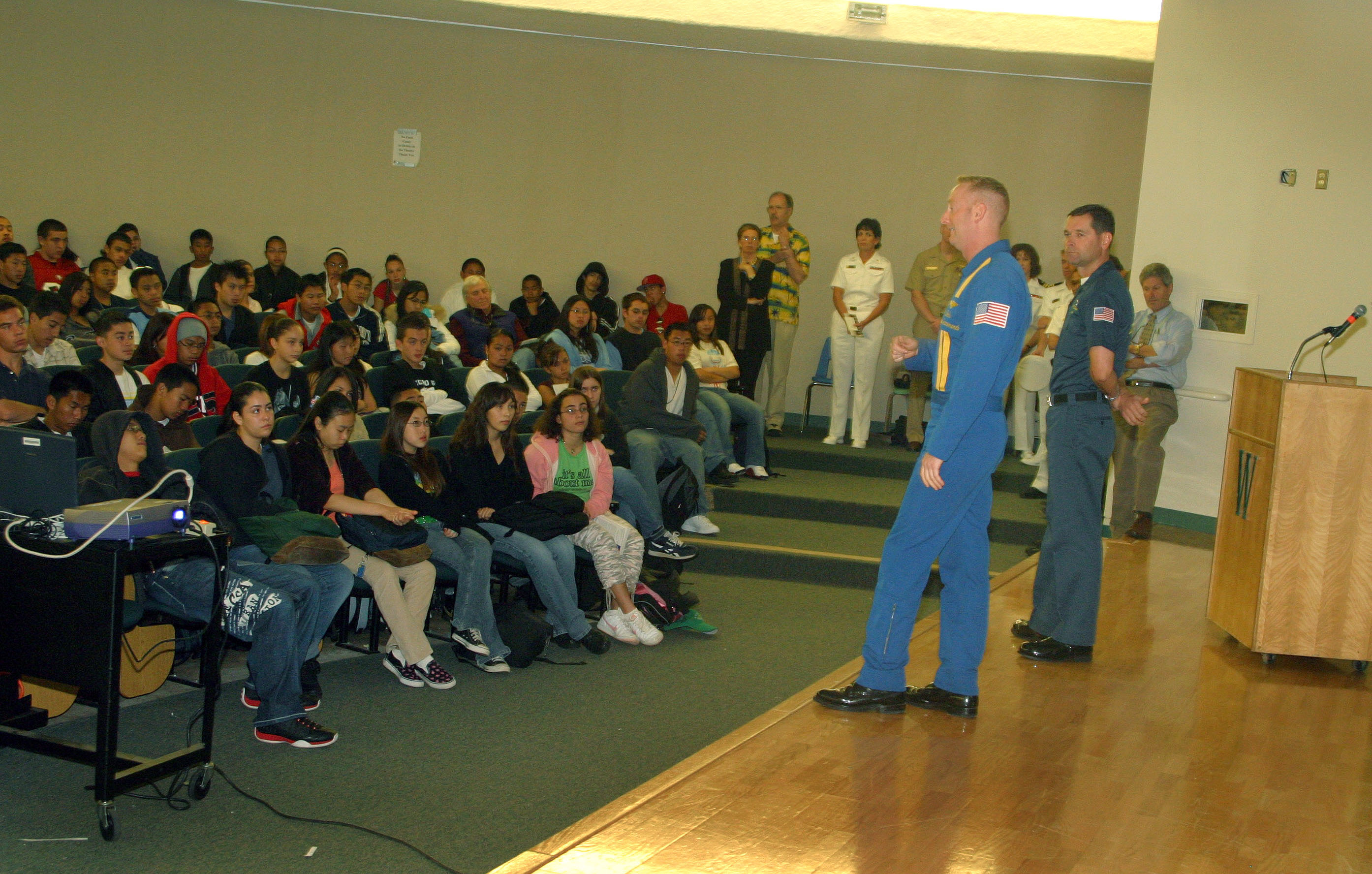 051007-N-3271W-001 Daly City, Calif. (Oct. 7, 2005) Lt. Cmdr. John Saccomando, left, and Aviation Electronics Technician 1st Class Alex Goulart, both assigned to the U.S. Navy “Blue Angels” flight demonstration team, speak to students at Westmoor High School about their Navy careers and experiences. Saccomando and other members of the Blue Angels visited the school as part of San Francisco’s Fleet Week. The Navy Office of Community Outreach (NAVCO) coordinated the visit, which joints San Francisco Fleet Week and Navy Recruiting this year in supporting the effort to enhance recruiting and Navy awareness in Northern California. Fleet Week is a 5-day celebration is held annually to recognize the contributions and sacrifices made by members of the Armed Forces. U.S. Navy photo by Chief Photographer’s Mate Gary Ward (RELEASED)